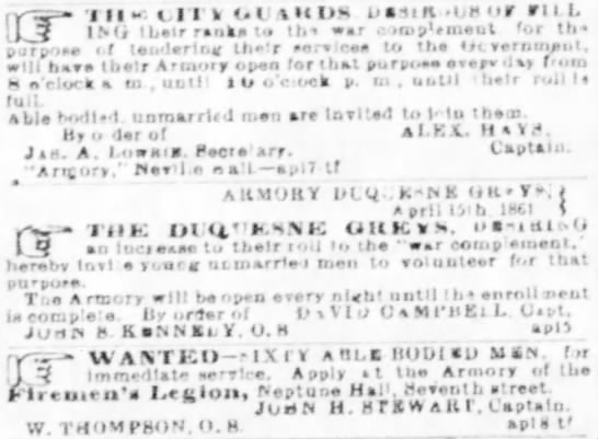 Recruitment notices for the City Guards, Duquesne Grays, and Firemen's Legion in Pittsburgh. All three companies became part of the 12th Pennsylvania Infantry.